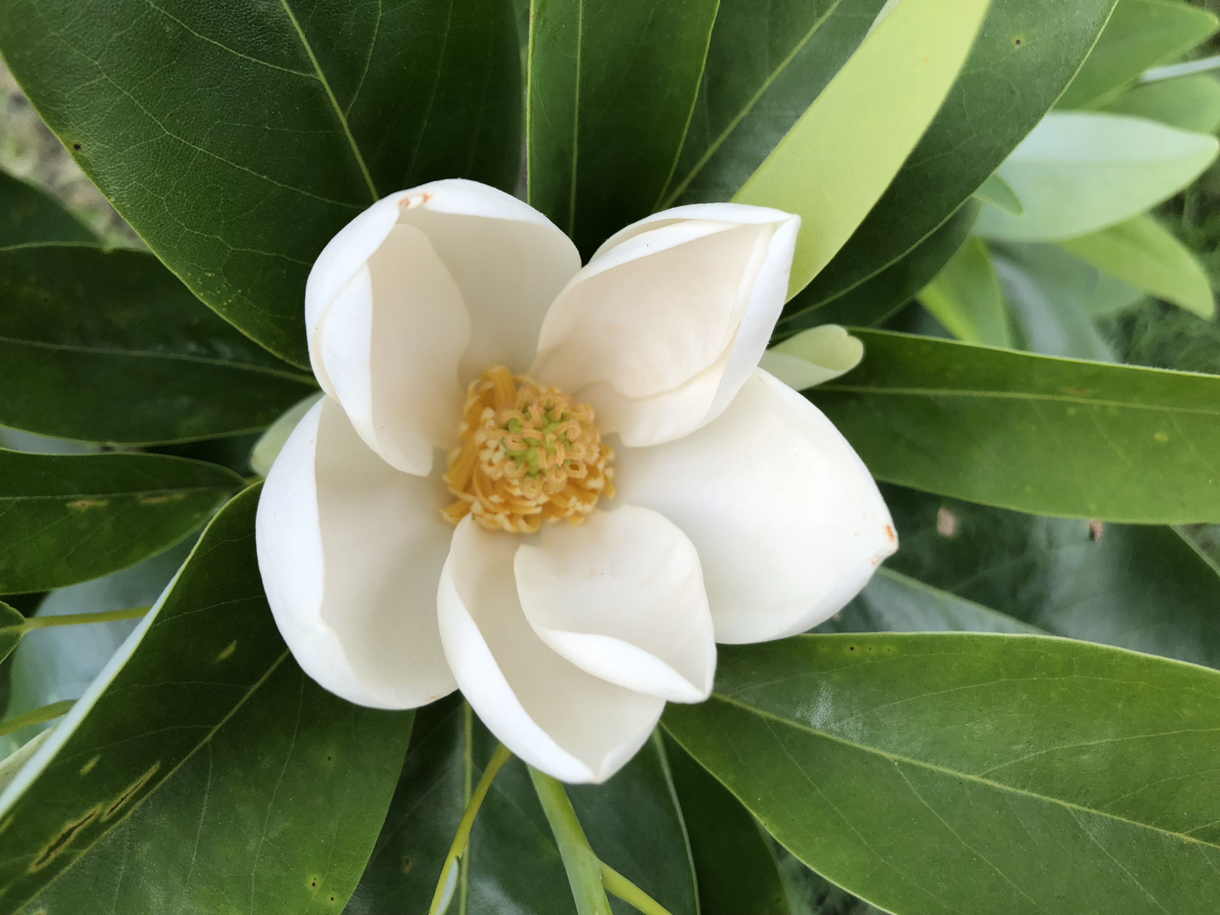 A Sweetbay Magnolia blossom along Centreville Road (Virginia State Route 657) just south of McLearen Road (Virginia State Route 668) in Oak Hill, Fairfax County, Virginia